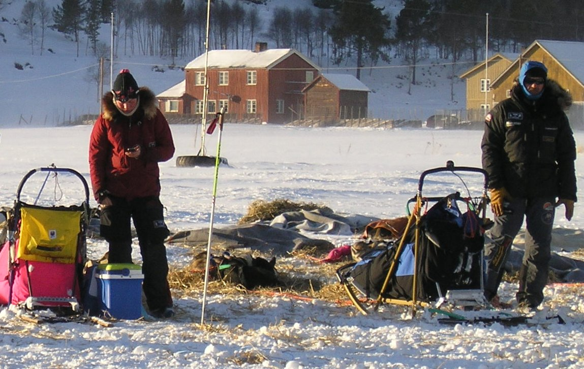 World Sledgedog Championship 2011 at Checkpoint Grimsbu: The winner of the long distance F600 class, Sigrid Ekran to the left, number two, Robert Sørlie, to the right